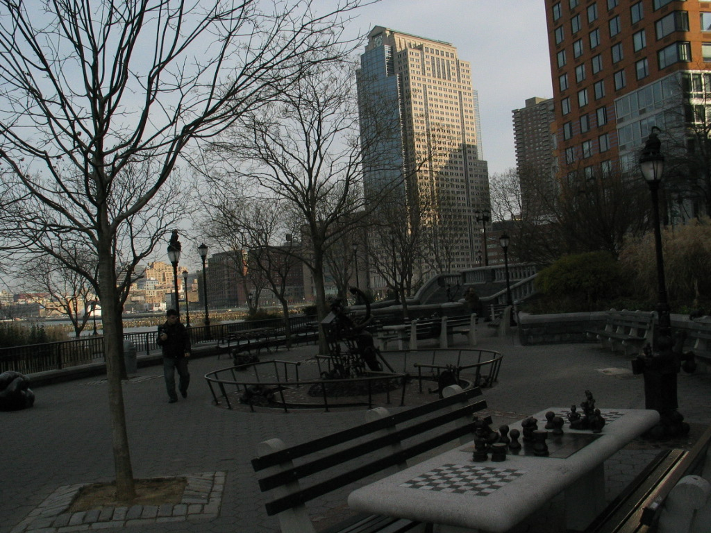 In Rockefeller Park — loacated in Battery Park City.